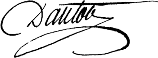 Signatures of Georges Danton, French orator and revolutionist.